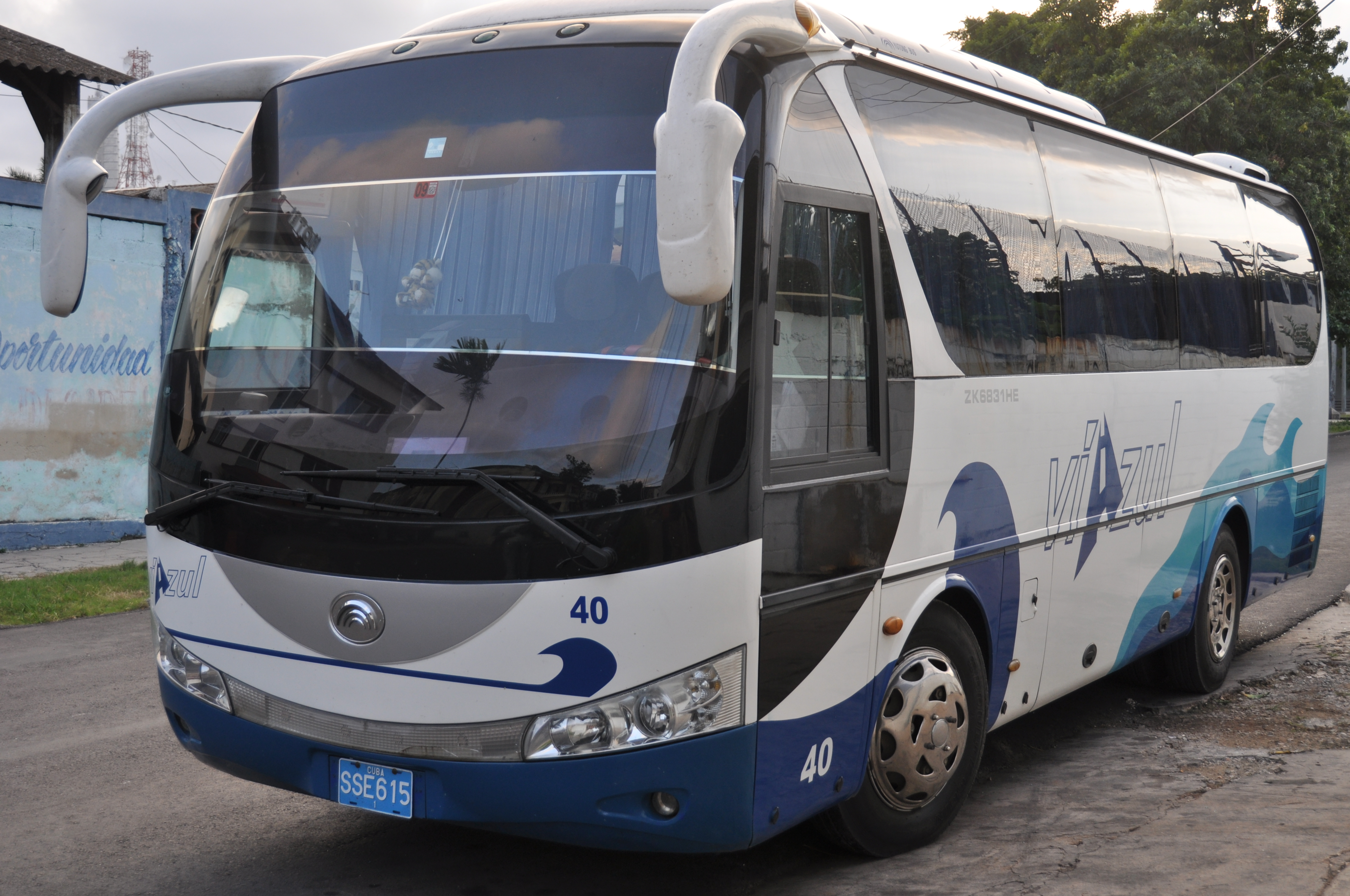 Viazul bus in Havana